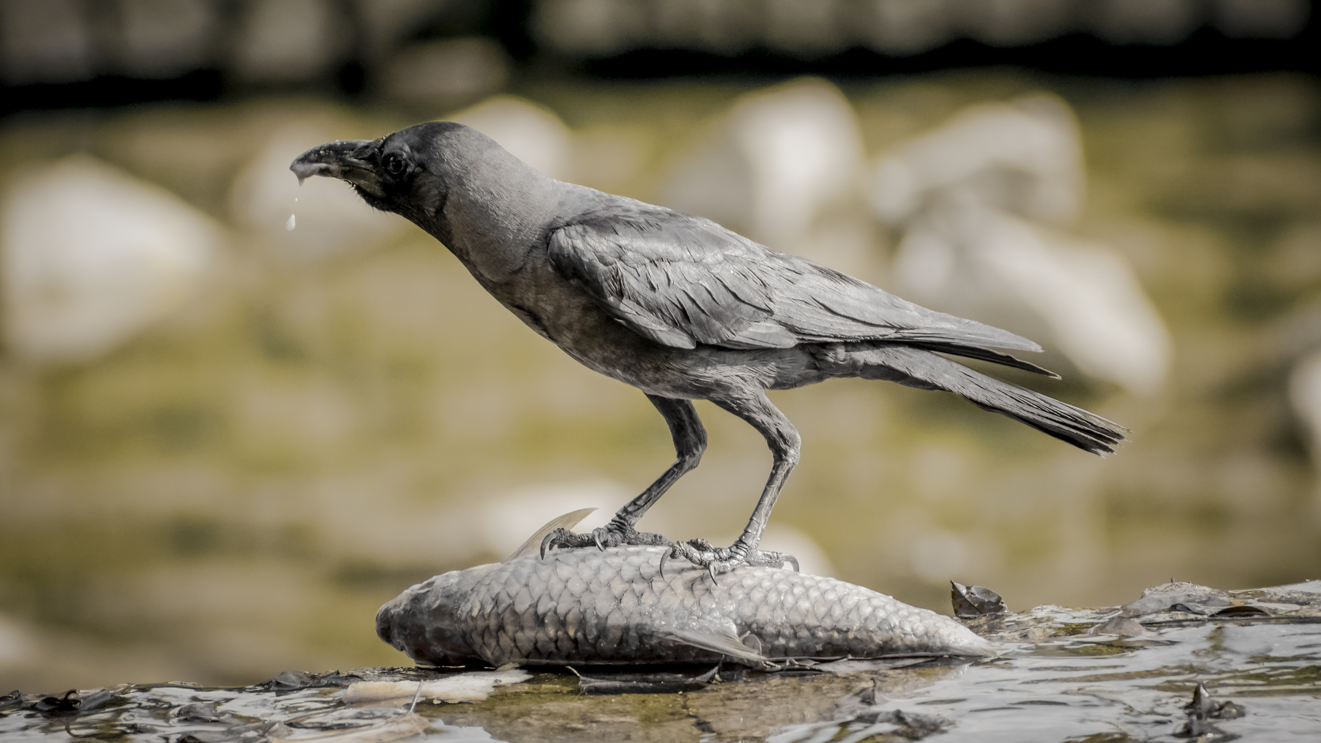 A House crow (Corvus splendens) ingests pieces from the carcass of a fish